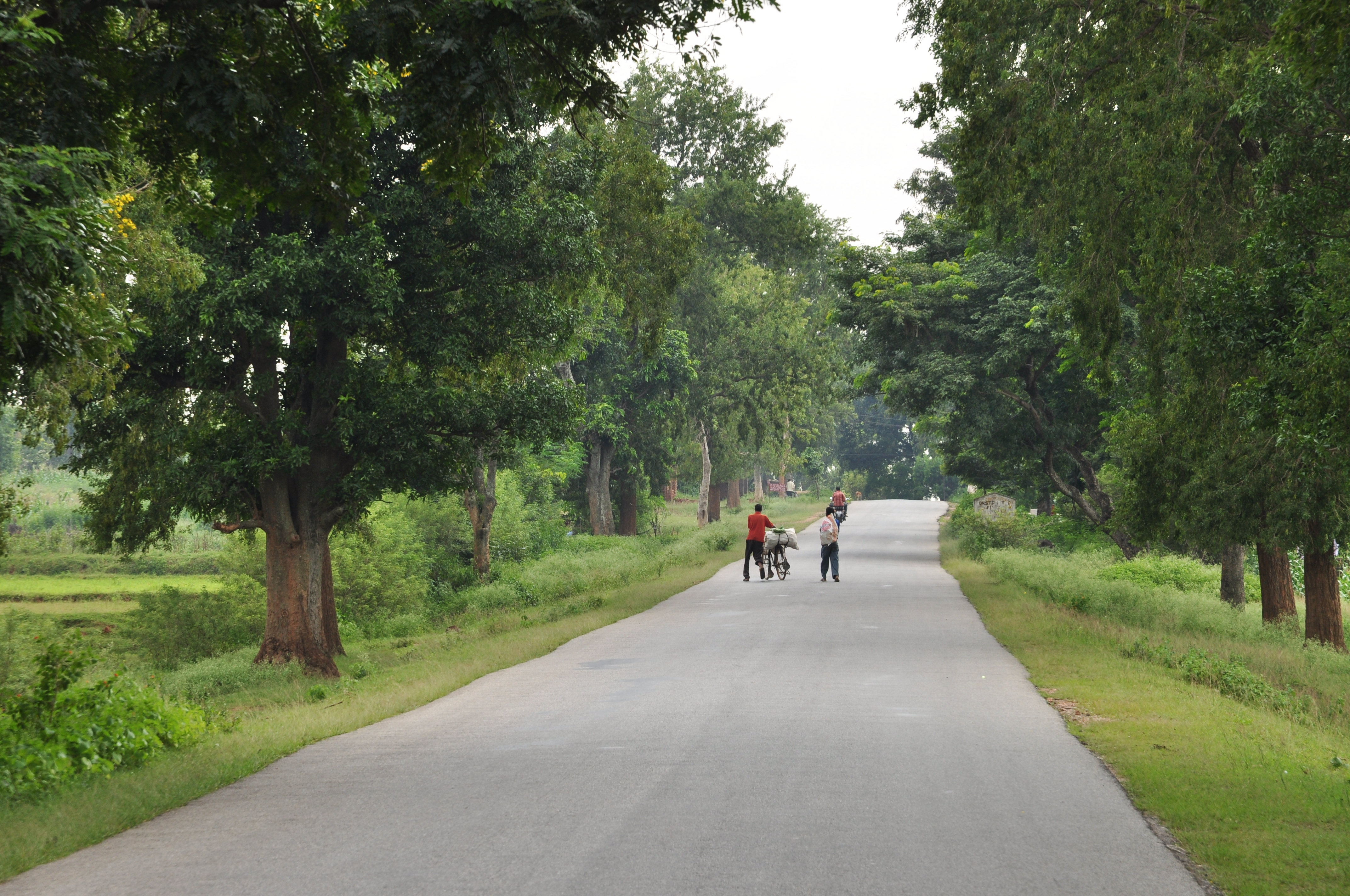 The road from Bijupara to Khalari of Jharkhand, India.